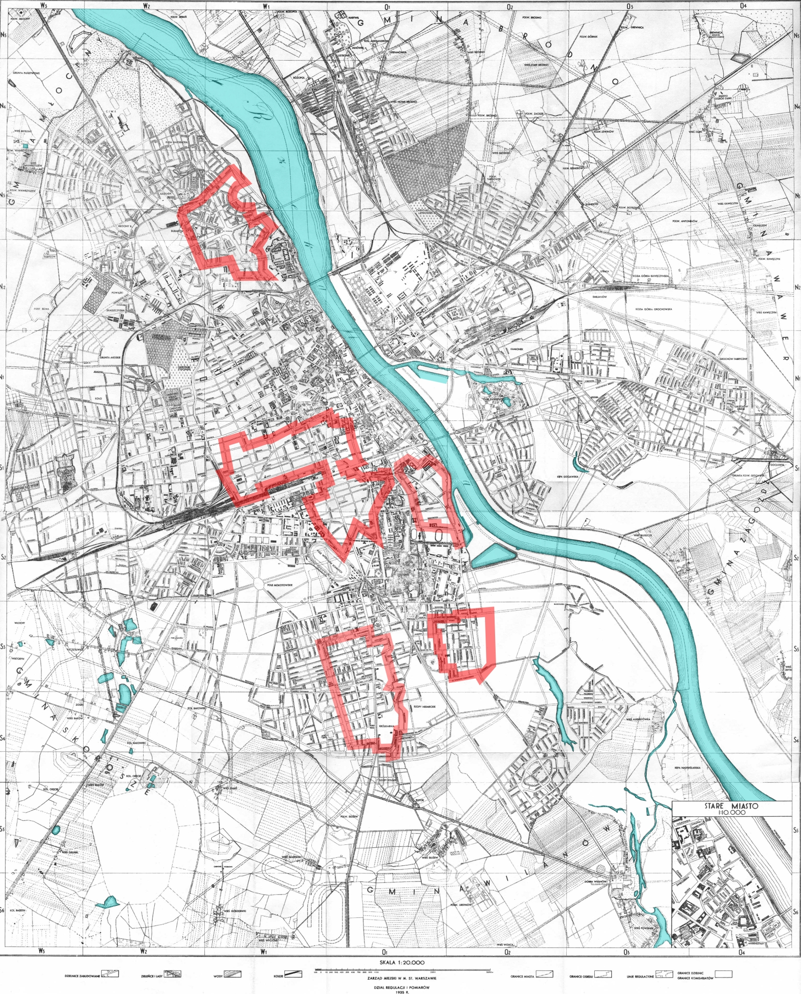 The areas of Warsaw controlled by the Home Army on September 10th, 1944, during the Warsaw Uprising. This map was based on a variety of sources and is pretty accurate, but don't expect any map to be any more or any less accurate: there were no stable front-lines and the ones presented here are only for orientation. Also note that not all areas outside of the Polish zone of control were controlled by the Germans.